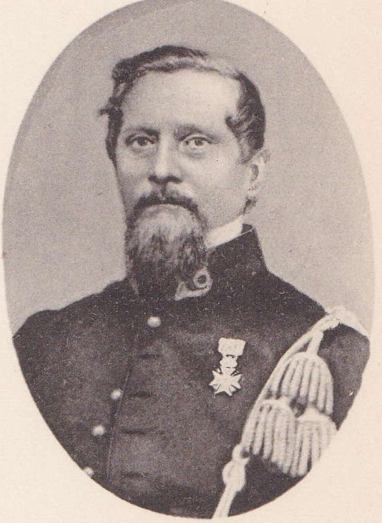 Portrait of J.C. Termijtelen